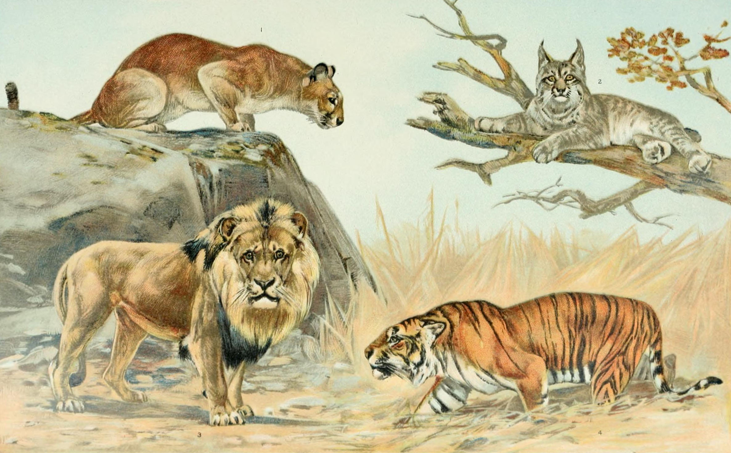 Chart showing four members of the cat family (Felidae).